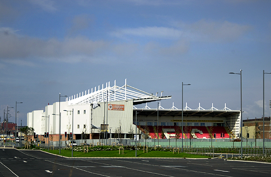 Bloomfield Road, home of Blackpool F.C. In view is the Mortensen North Stand straight ahead and the Pricebusters Matthews (West) Stand to the left. Photograph taken by Simon Povey in 2006 using a Nikon D1 (